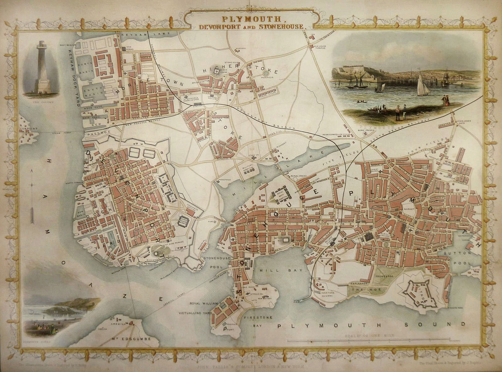 Map of Plymouth and Devonport about 1851